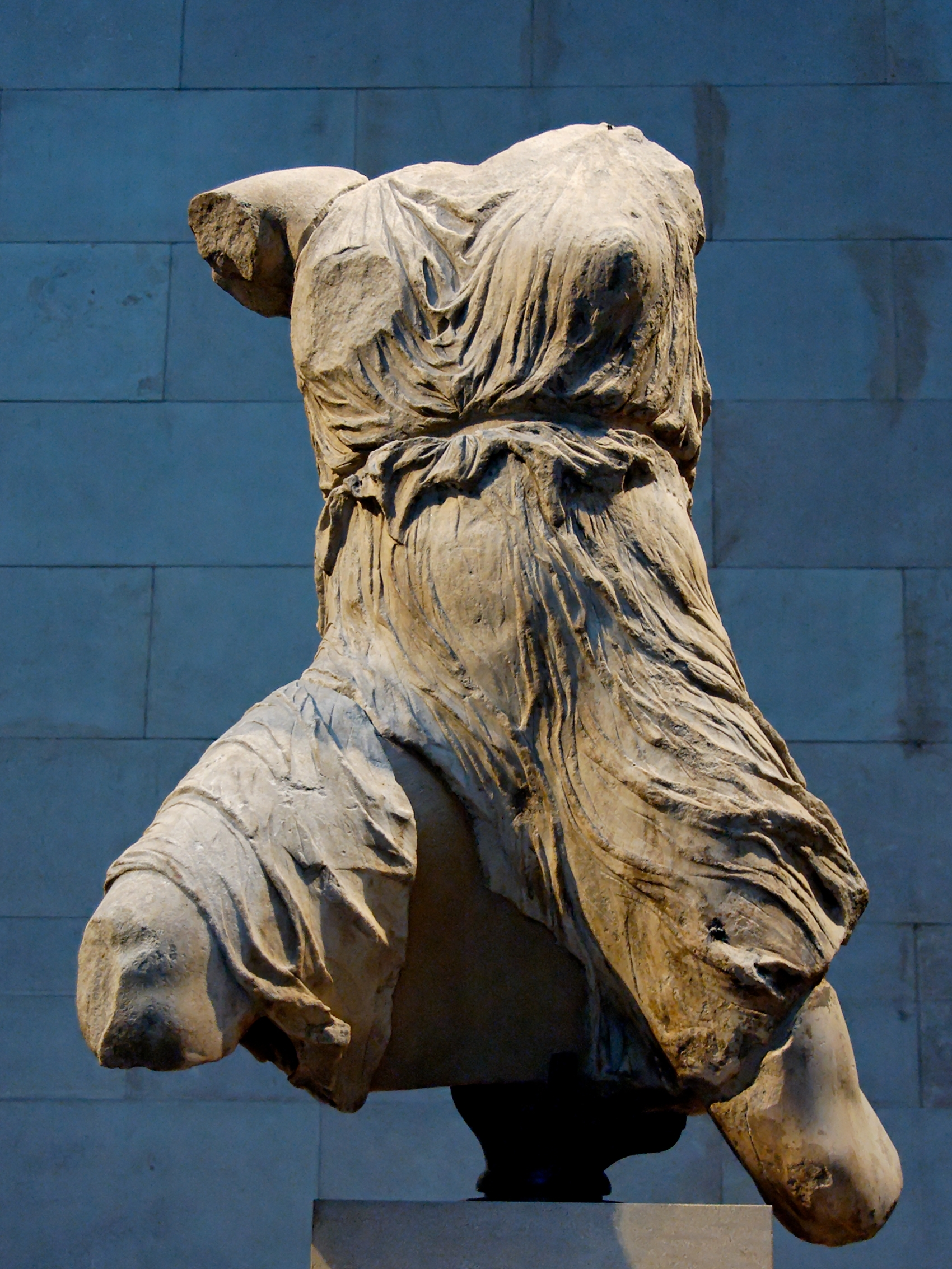 Iris. West pediment N, Parthenon, ca. 447–433 BC.